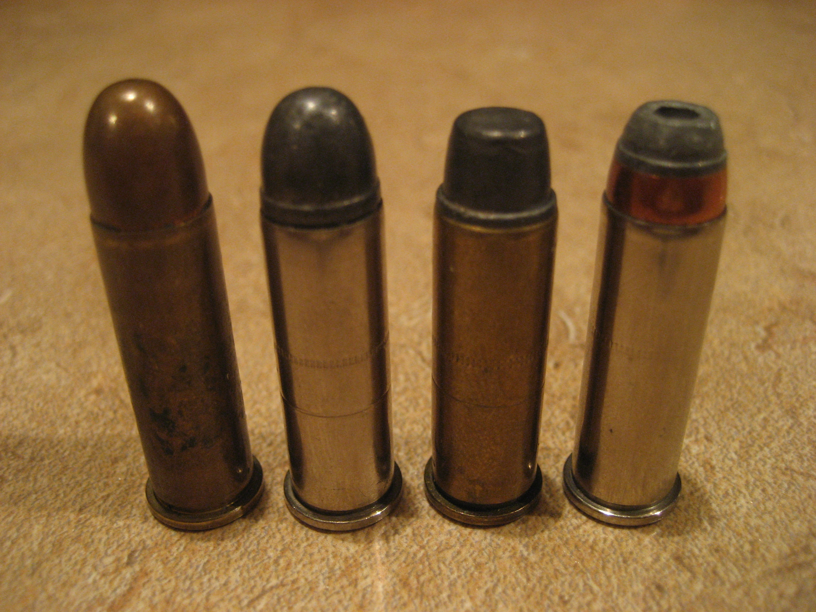 .38 Special Rounds